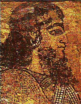 Male head, 7th century fresco from Til Barsip (Allepo museum)